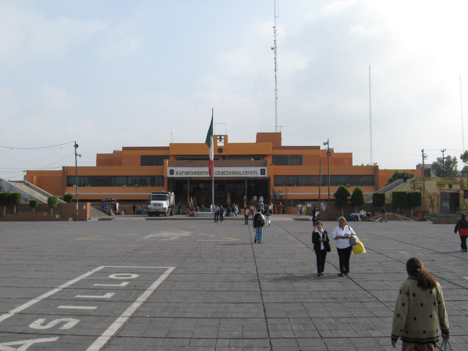 Front view of the "municipal palace" (main government building) of Ciudad Nezahualcoyotl, Mexico